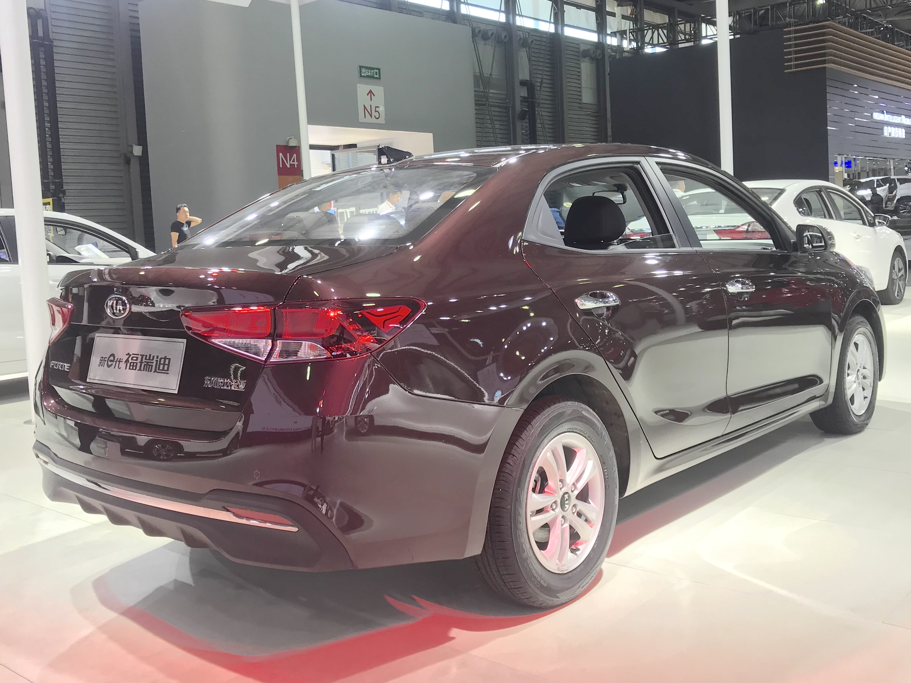 Kia Forte Furuidi (ND) rear